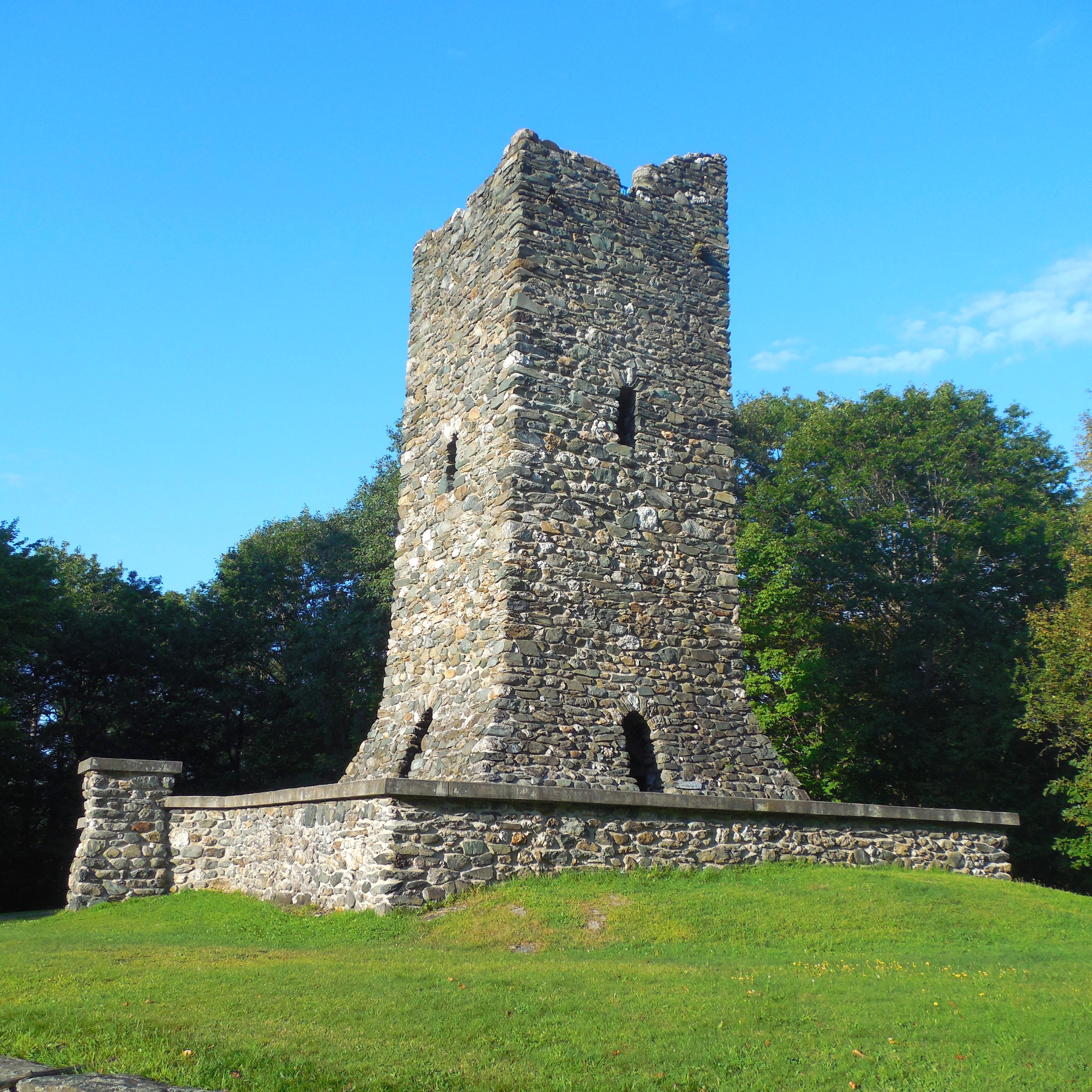 Hubbard Park Observation Tower in Montpelier, Vermont (looking northeast), 27 August 2017. The structure was listed on the Vermont State Historic Register on March 15, 1990, and was added to the National Register of Historic Places as part of the 'Montpelier Historic District' (property #562) on February 20, 2018.